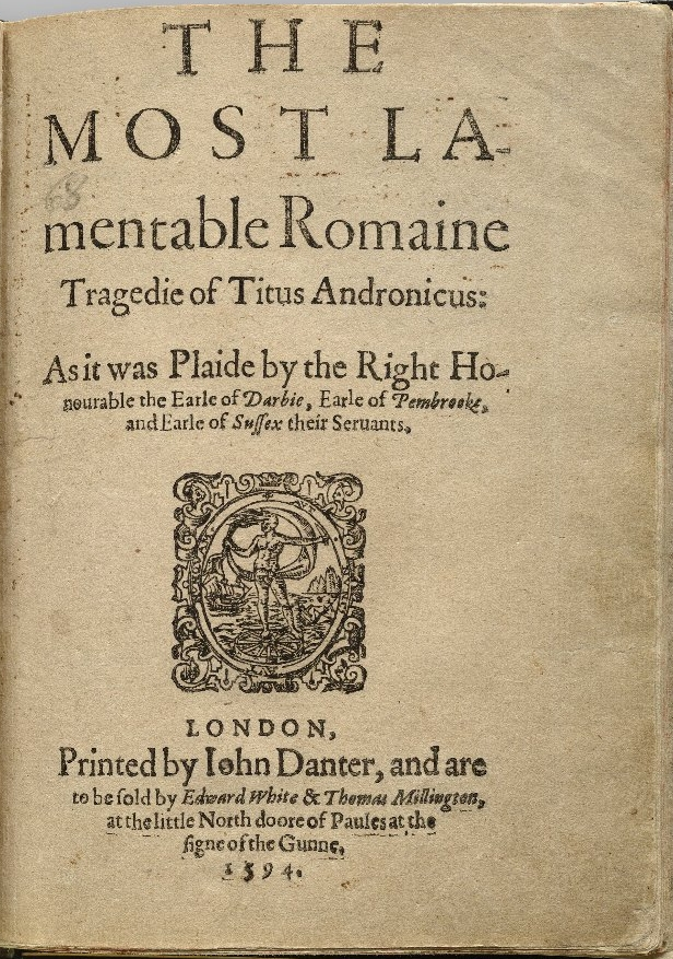 Title page of the first quarto of Titus Andronicus by Shakespeare, published 1594 (darkness of image accurately reflects the color of the artifact)